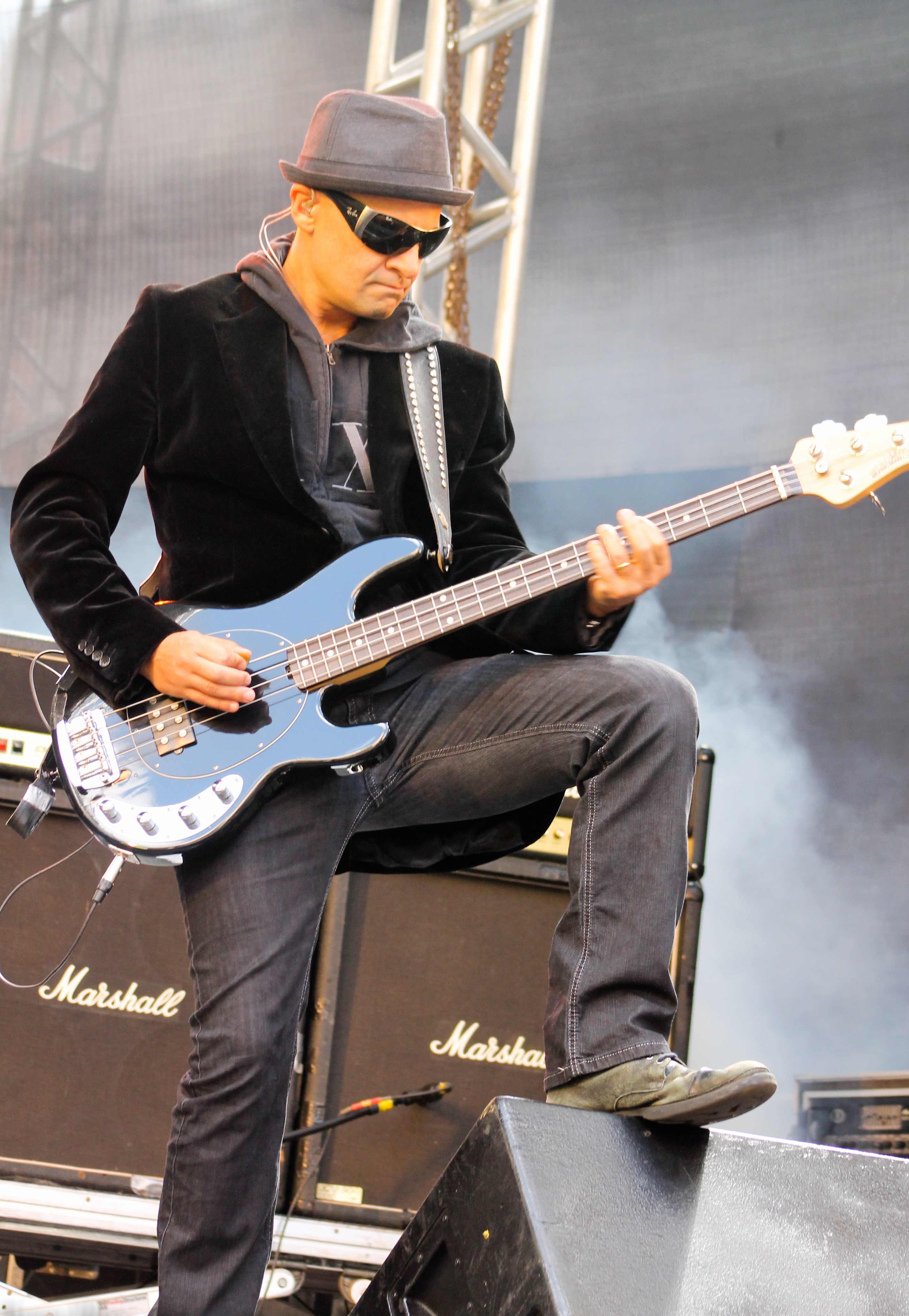 Sérgio Britto live in 2012.